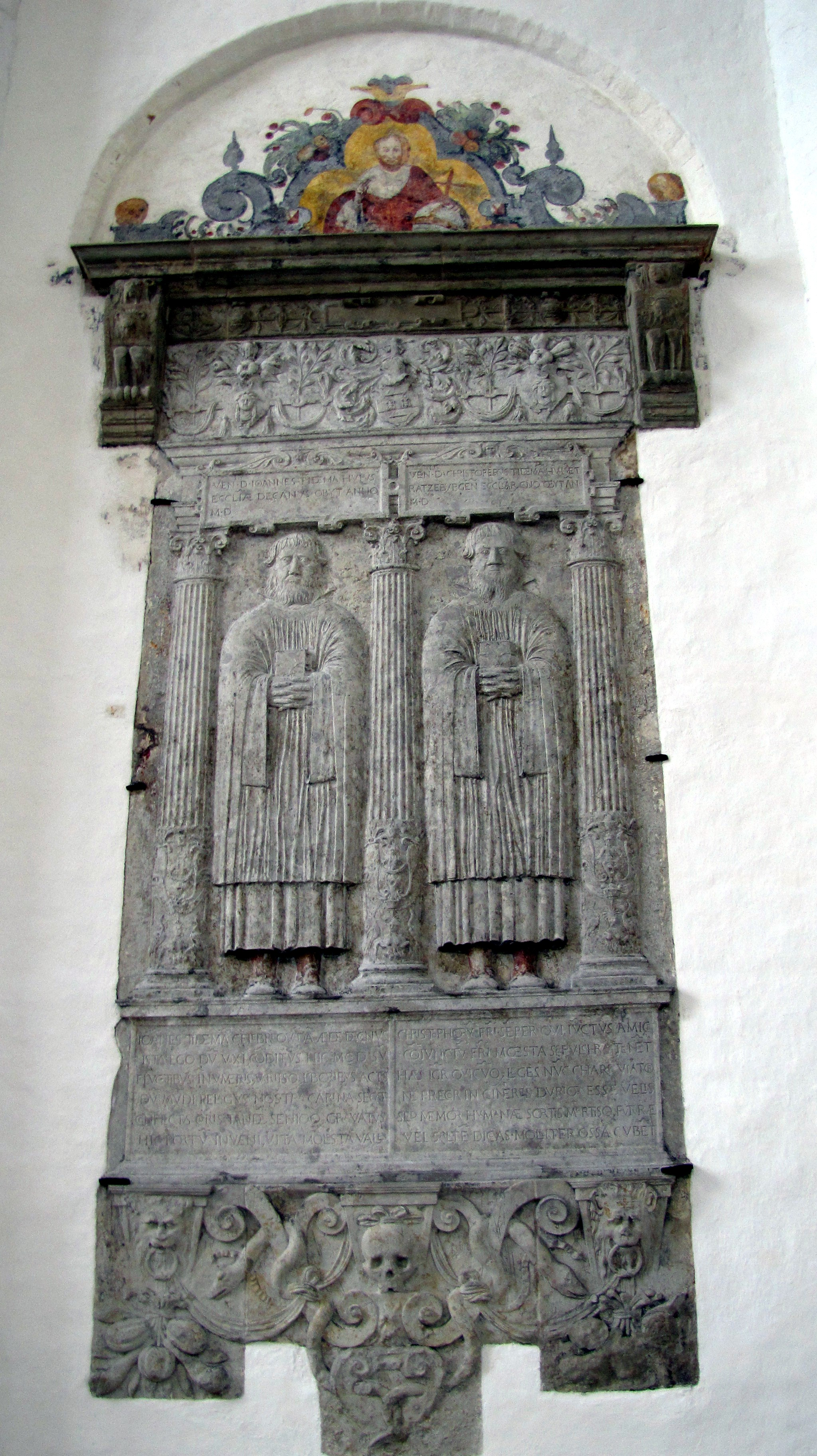 double epitaph for brothers Johannes (Dean, later Bishop) and Canon Christopher Tiedemann